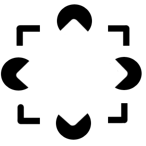 This picture is a sample for explanation of Subjective contours on Visual perception